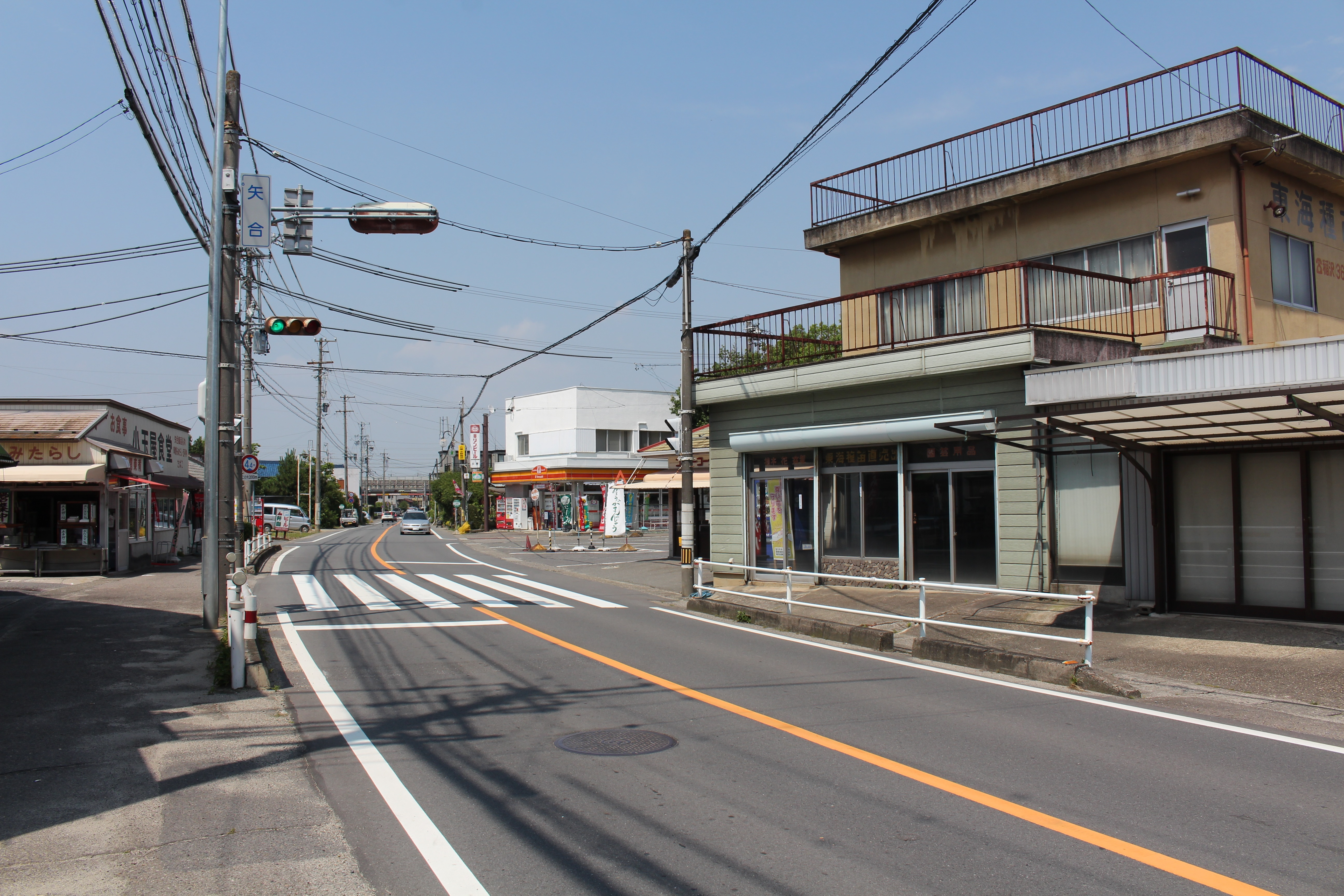 Aichi Prefectural Road Route 121, in Yawase, Inazawa, Aichi prefecture, Japan.